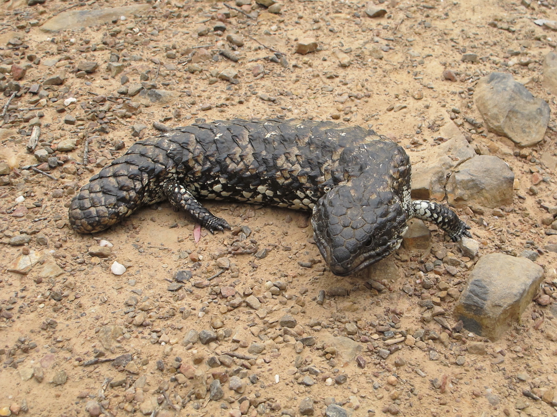 Tiliqua rugosa asper - Eastern Shingleback